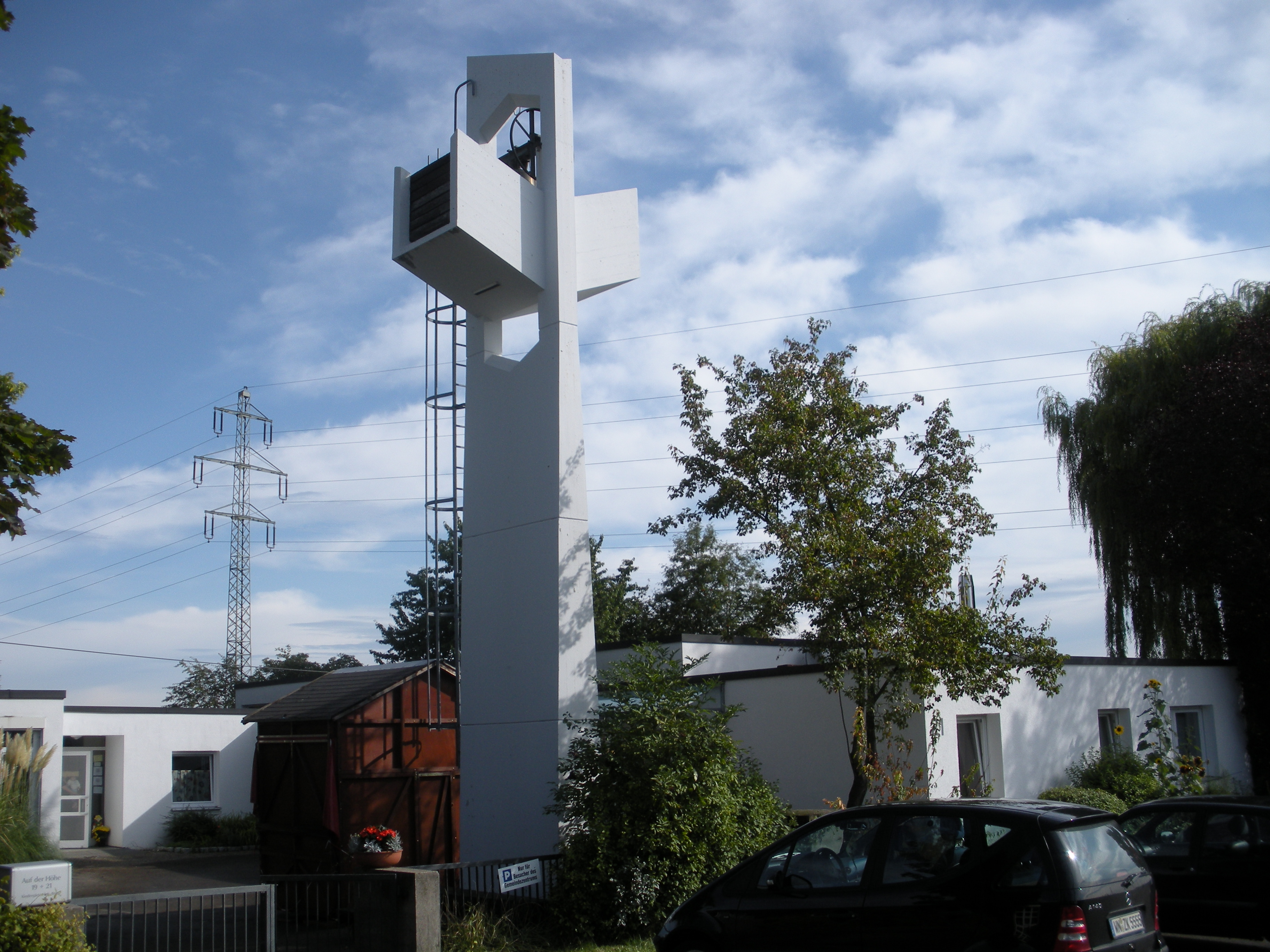 Protestant Church of Johannes Brenz in Fellbach